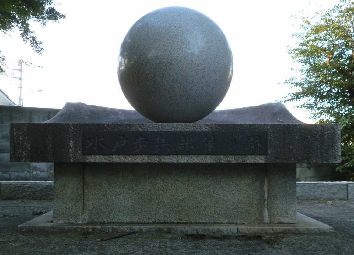 Cenotaph of Imperial Japanese Army 2nd Infantry Regiment at Horihara, Mito city, Ibaraki prefecture